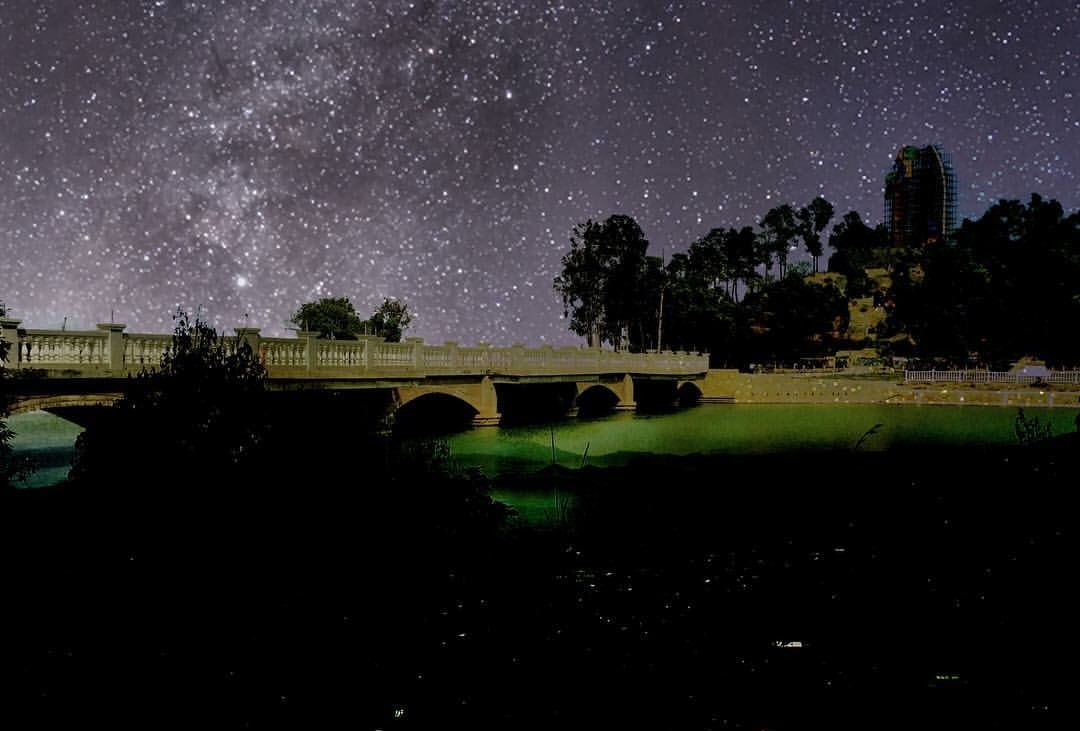 The beautiful view of khongjom war memorial complex in night . In these place the Second World War is fought with our Manipur freedom fighters were they gave up their lives in this place like Paona Barjabashi , Bir Tikendrajit and many more. Every year on April 23 KHONGJOM DAY is celebrated on their memories.